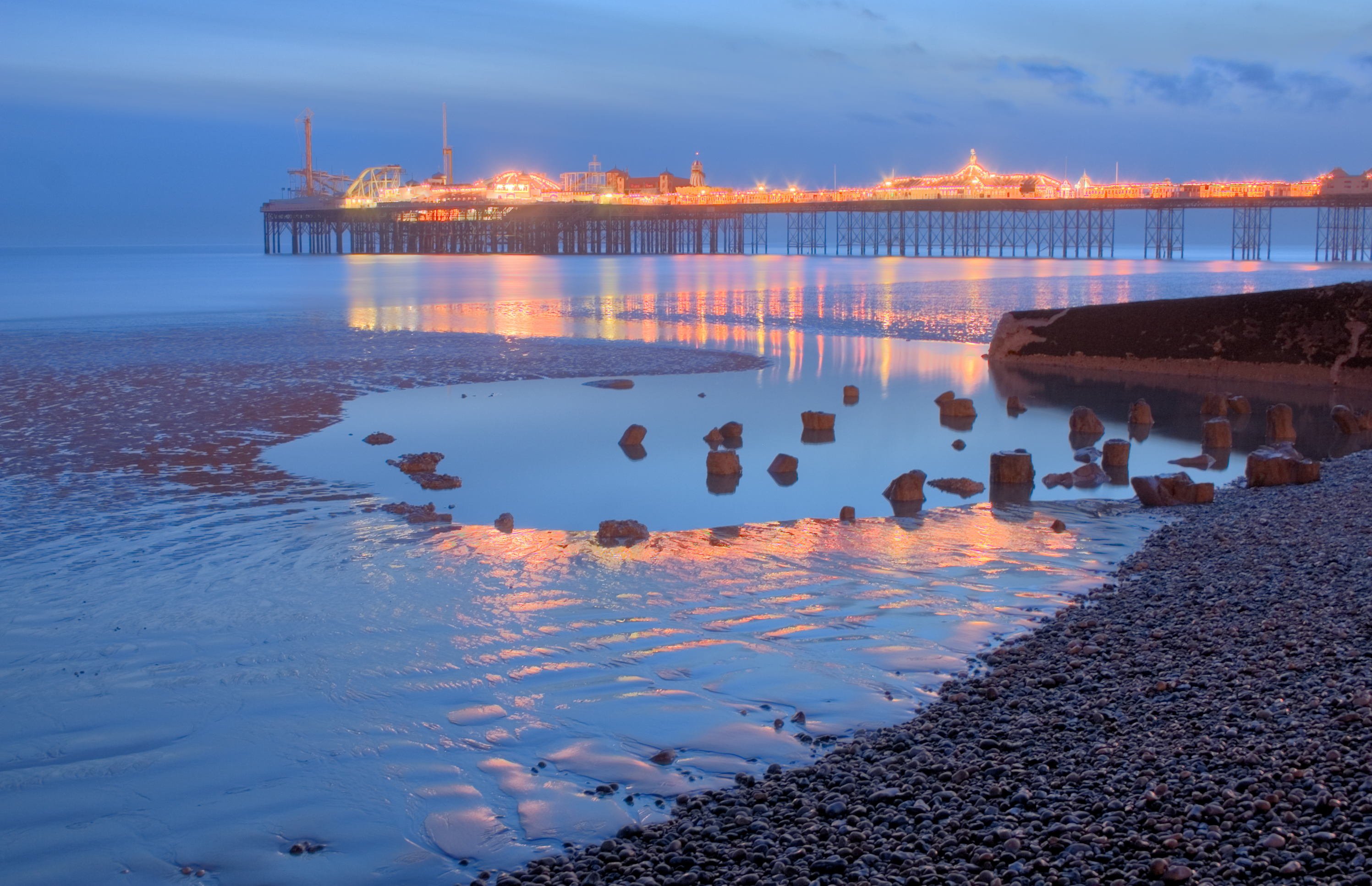 Oak foundation piles of the Royal Suspension Chain Pier Brighton exposed at very low tide in 2010. Some masonry blocks that may be Purbeck stone (a limestone that can be polished like marble) from the promenade can also be seen. In the background Brighton Pier (Brighton Marine Palace and Pier) can be seen. An HDR image resolved using local adaptation.